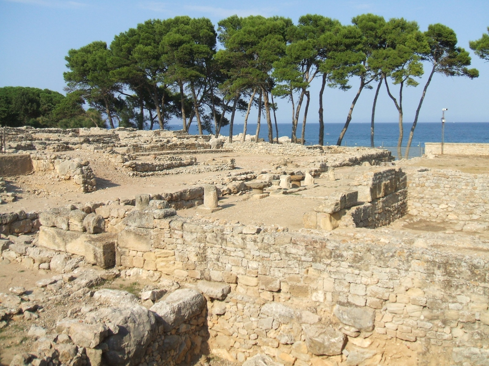 Empuries Archaeological Site (Catalunya, Spain) : Greek ruins of Neapolis ; Serapieion (Temple of Isis and Zeus Serapis).